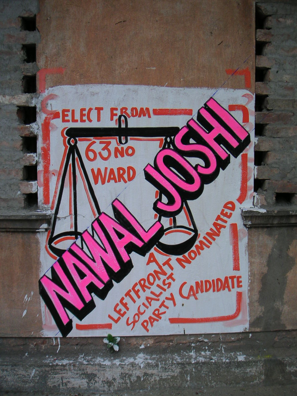 Campaign mural for West Bengal Socialist Party candidate Nawal Joshi for the 2005 Kolkata Municipal Corporation elections. Photo: Soman